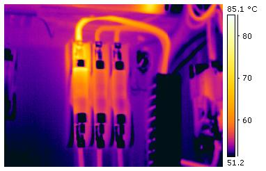 This thermogram shows a fault with an industrial electrical fuse block (bright yellow area). If the problem is not rectified, failure will eventually result with lost production being the result.